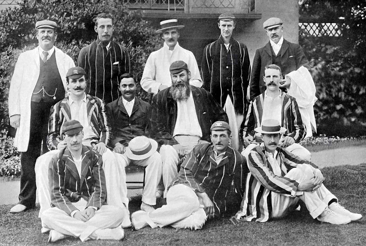 Gentlemen XI for the fixture vs Players at Lord's Cricket Ground, London, 1899. Back row: (L-R): Sherwin; Umpire, W.M.Bradley, A.C.MacLaren, C.L.Townsend, West, Umpire. Middle row:(L-R): G.MacGregor, K.S.Ranjitsinhji, W.G.Grace, R.M.Poore. Front: (L-R): F.S.Jackson, C.B.Fry, D.L.A.Jepson.